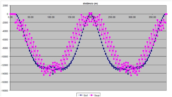 Tensões na fibra inferior e superior do tabuleiro antes da betonagem da aduela de fecho.